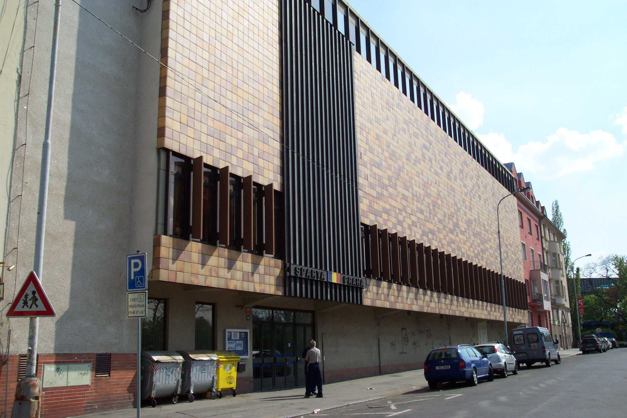 Praha 7-Bubeneč, Nad Královskou oborou 1080/51, sportovní hala Královka AC Sparta Praha HQ